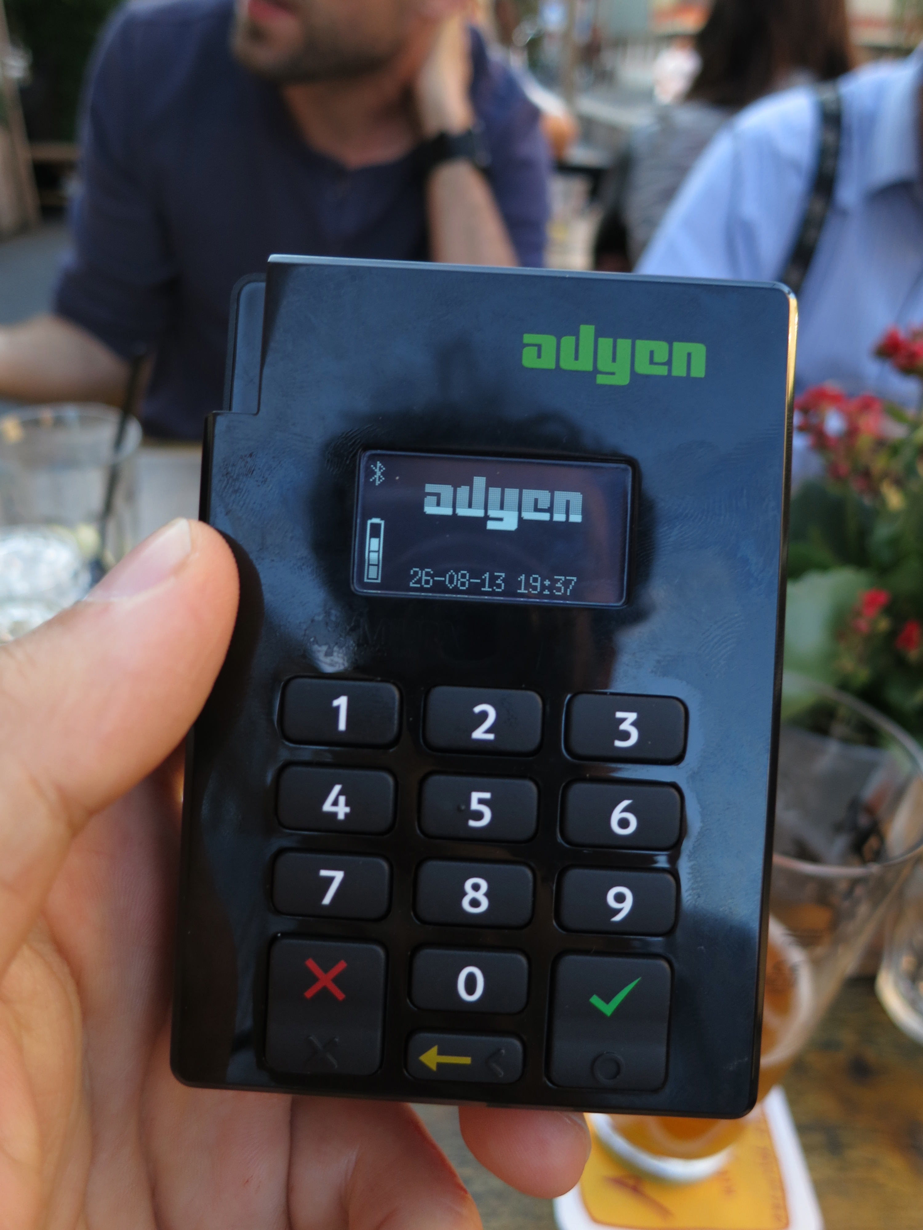 Adyen card payment terminal